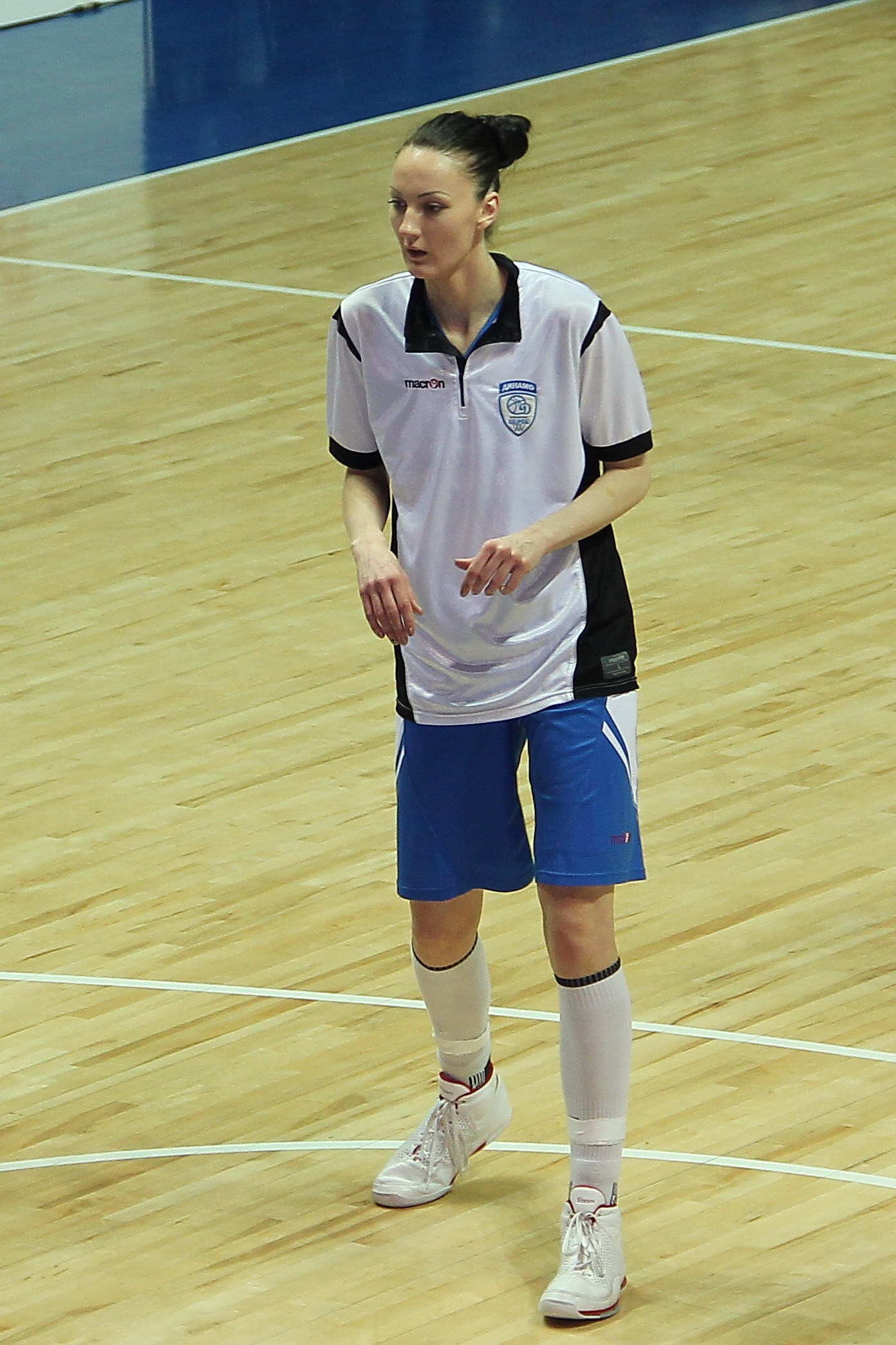 Russia, Vologda, Yekaterina Lisina in game «Vologda-Chevakata» vs «Dinamo» (Kursk)